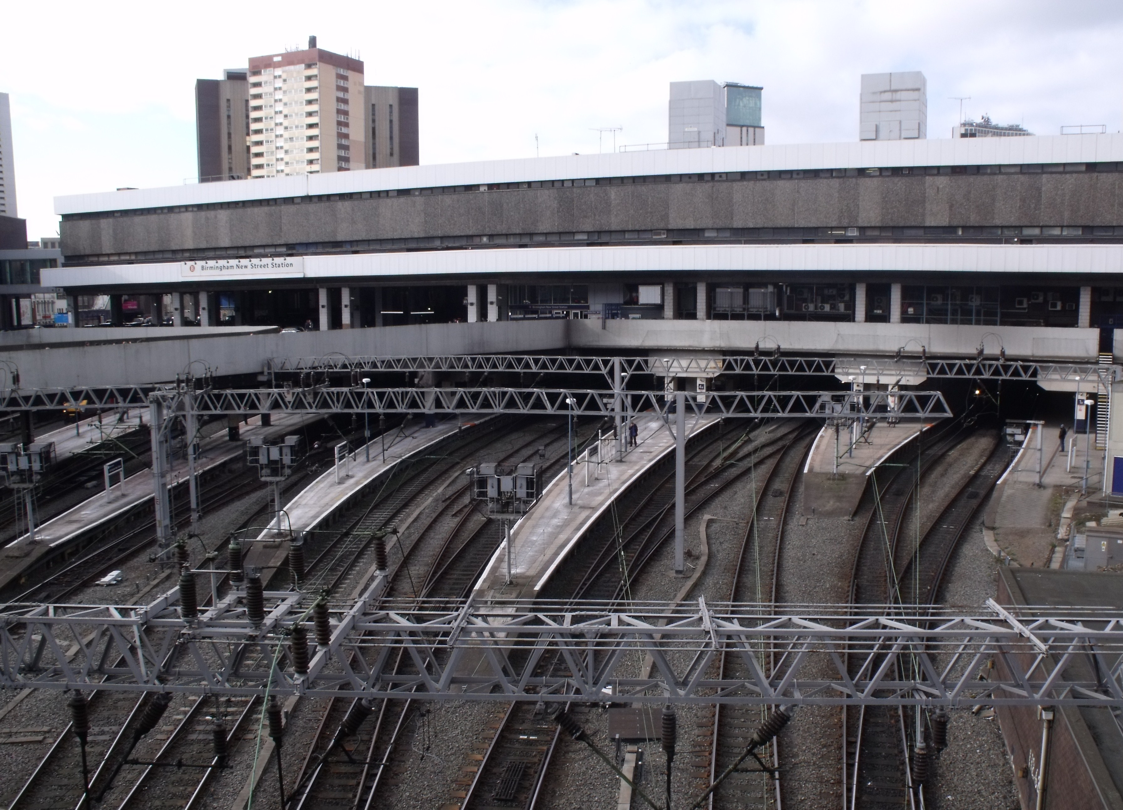 This is Birmingham New Street Station from St Martin's Queensway. Shots taken from near Worcester Walk. A look down at the tracks / rails and platforms at New Street Station. Towers include Stephenson Tower and the Orion Building.